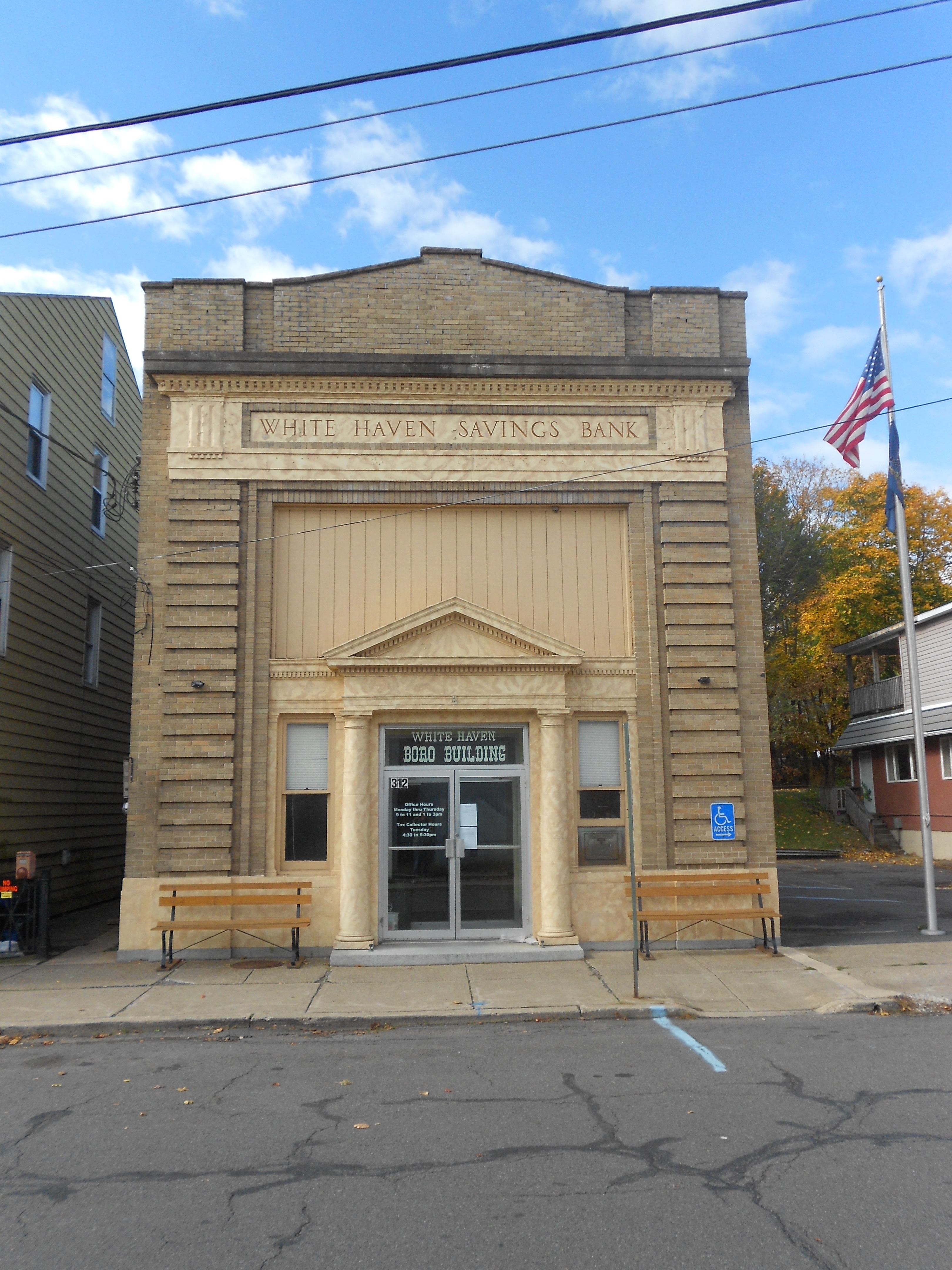 White Haven Borough Building, former bank or savings association, in Luzerne County, Pennsylvania